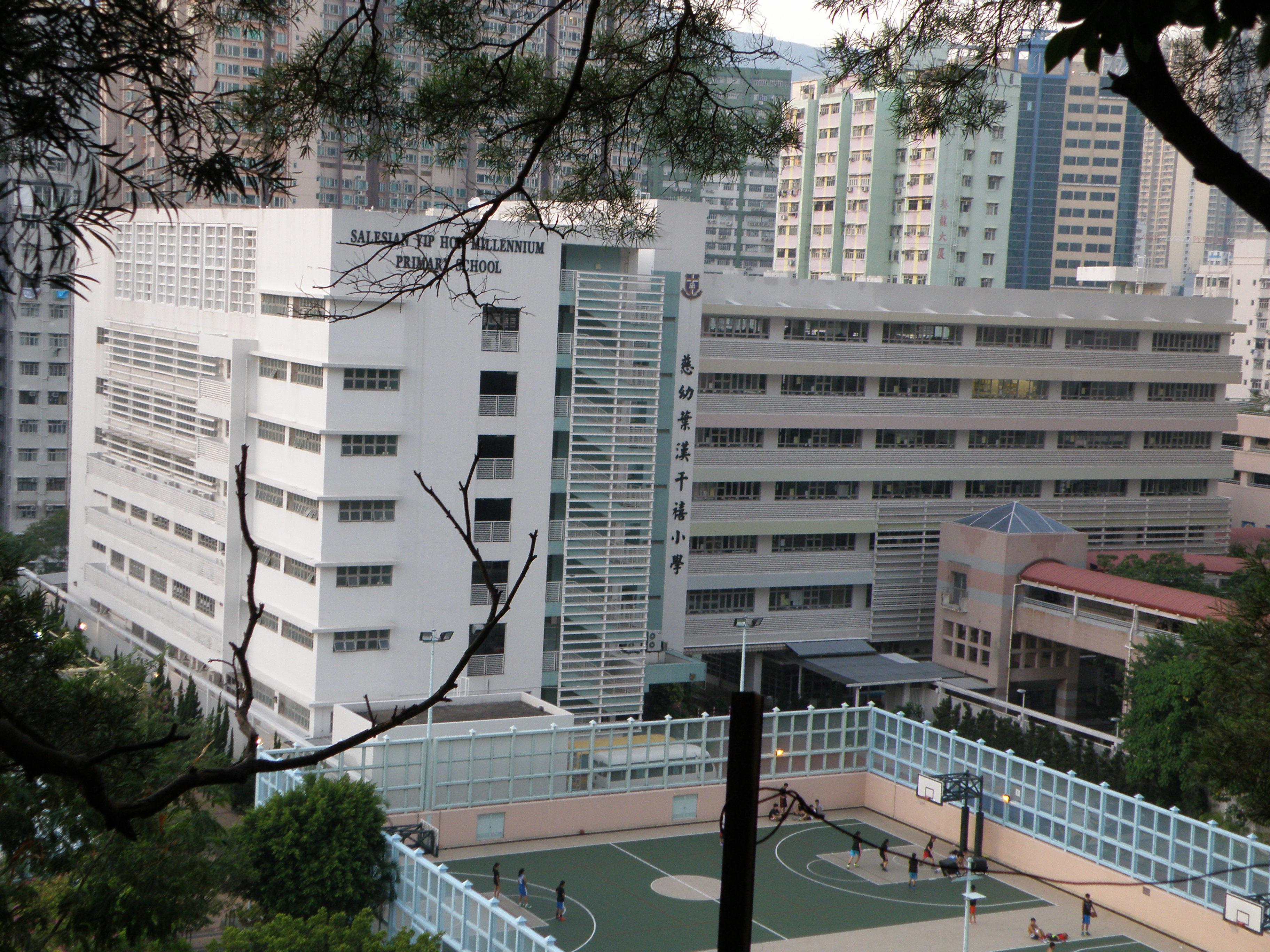 Salesian Yip Hon Millennium Primary School in Kwai Chung, Hong Kong.